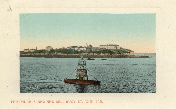 Postcard of "Partridge Island and Bell Buoy, St. John, N.B.". Patridge Island was a quarantine station in the harbour of Saint John, New Brunswick, Canada.